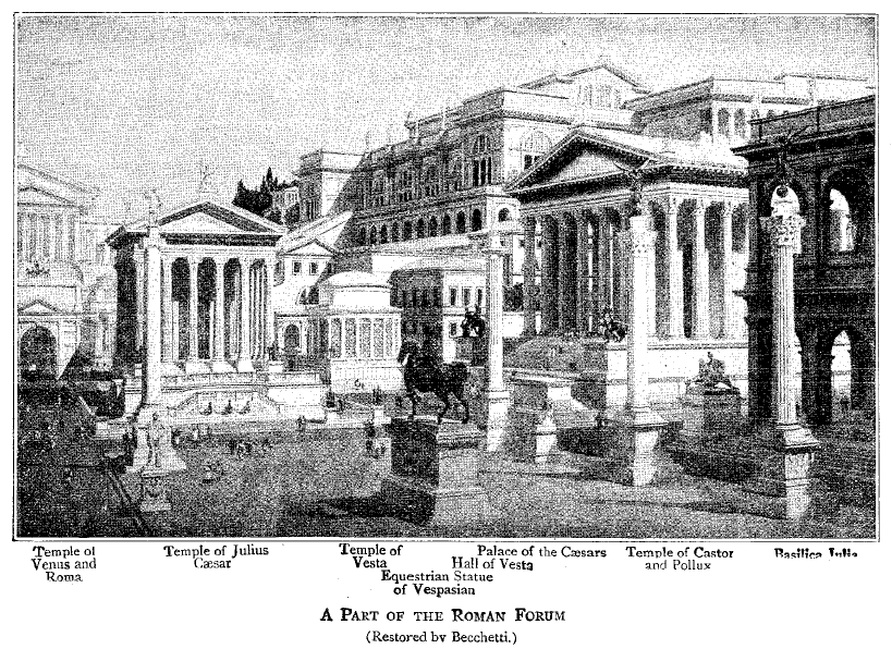 Roman forum, etching by Becchetti